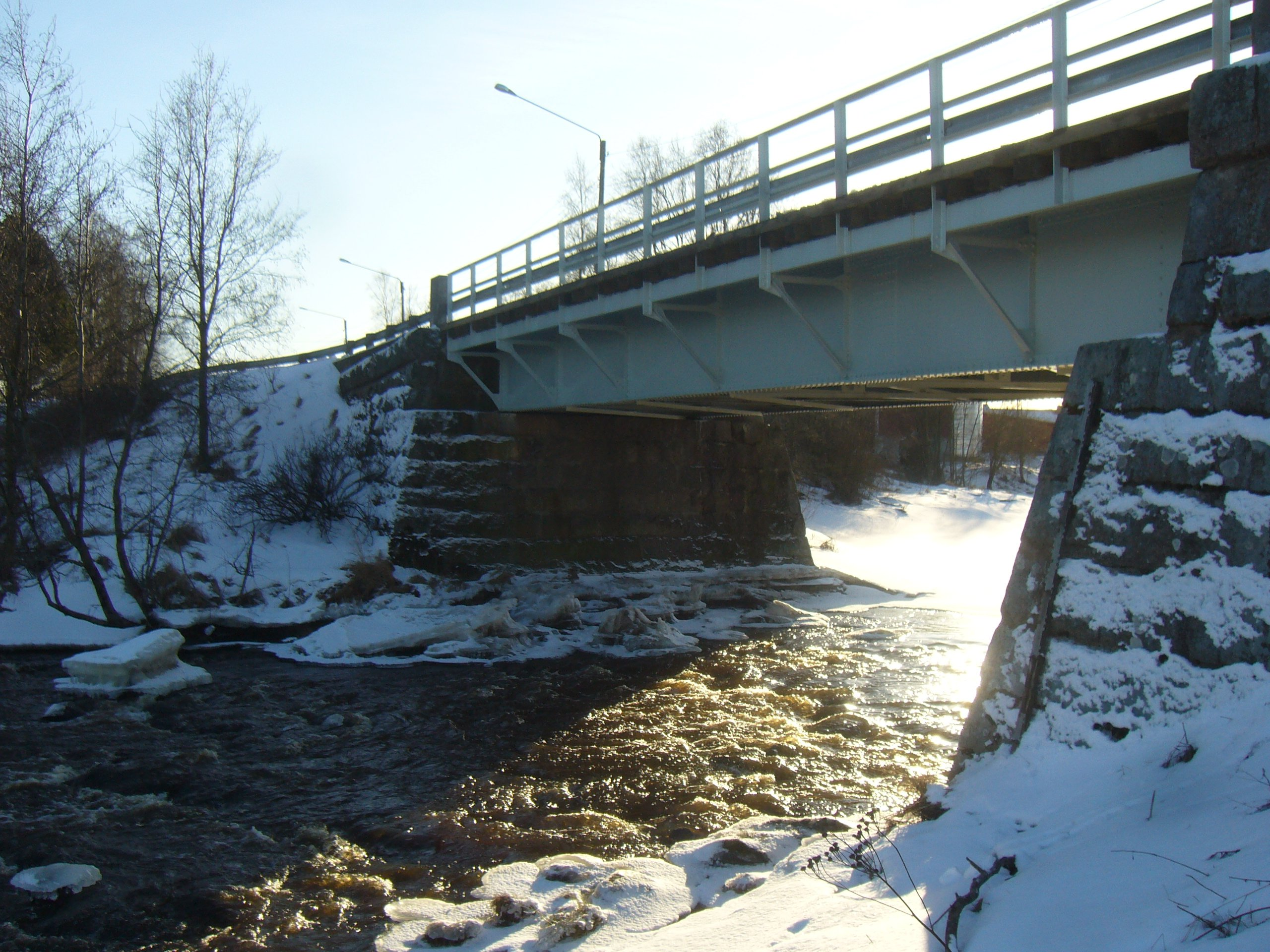 Kainastonjoki river in Kauhajoki, Finland.